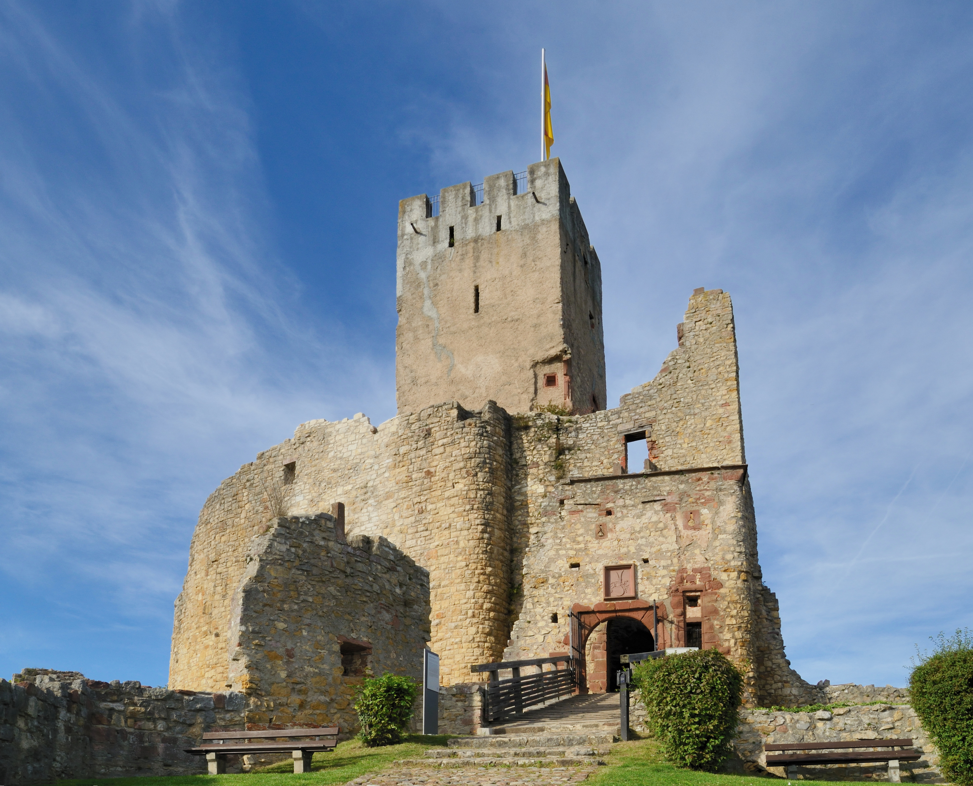 Rötteln Castle: upper part